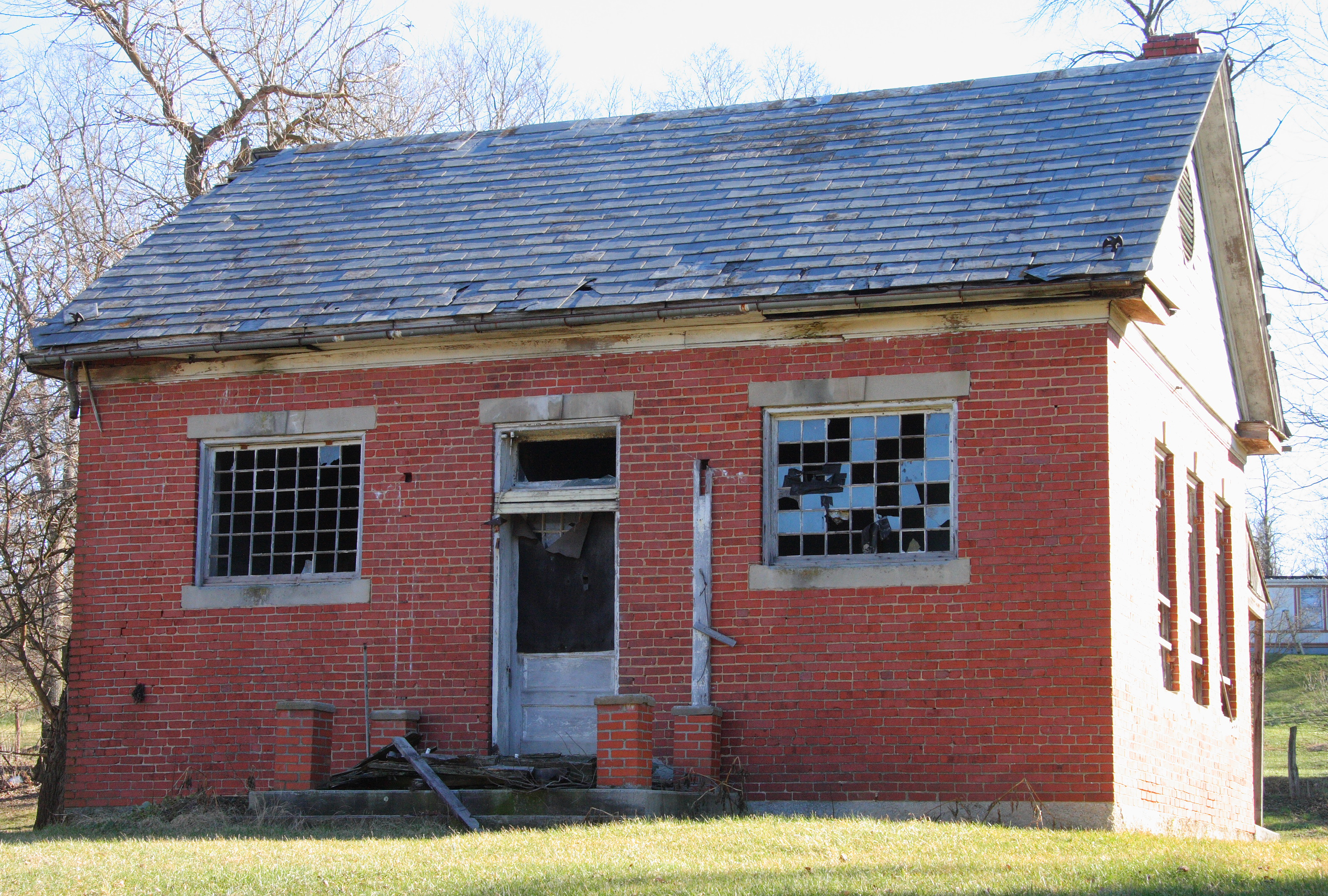 Halltown Colored Free School, Halltown, West Virginia, USA